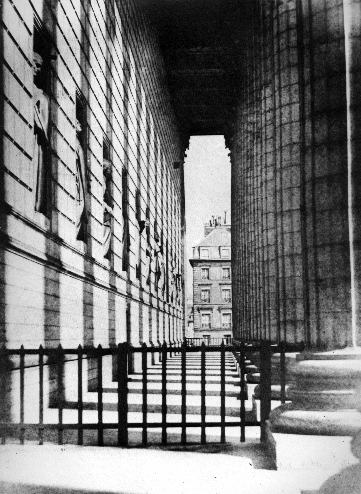 Hippolyte Bayard (1801–1887): Madeleine Paris c.1845